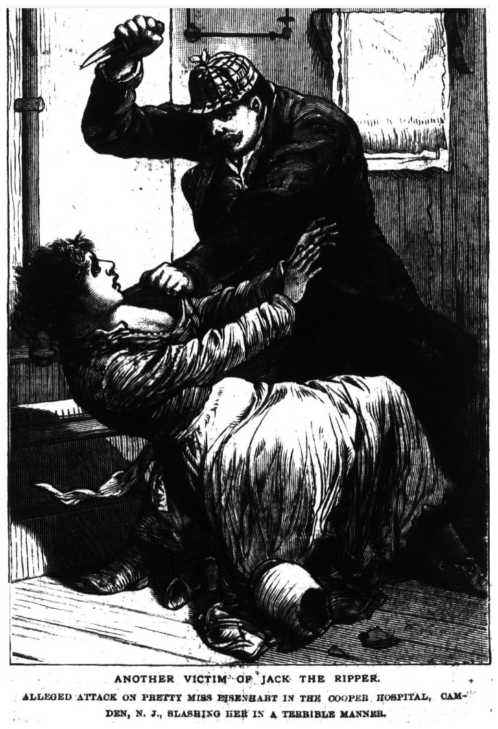 "Another Victim of Jack the Ripper - Alleged Attack on Pretty Miss Eisenhart in the Cooper Hospital, Camden, N. J., Slashing Her in a Terrible Manner". Illustration published in the National Police Gazette (February 16, 1889).